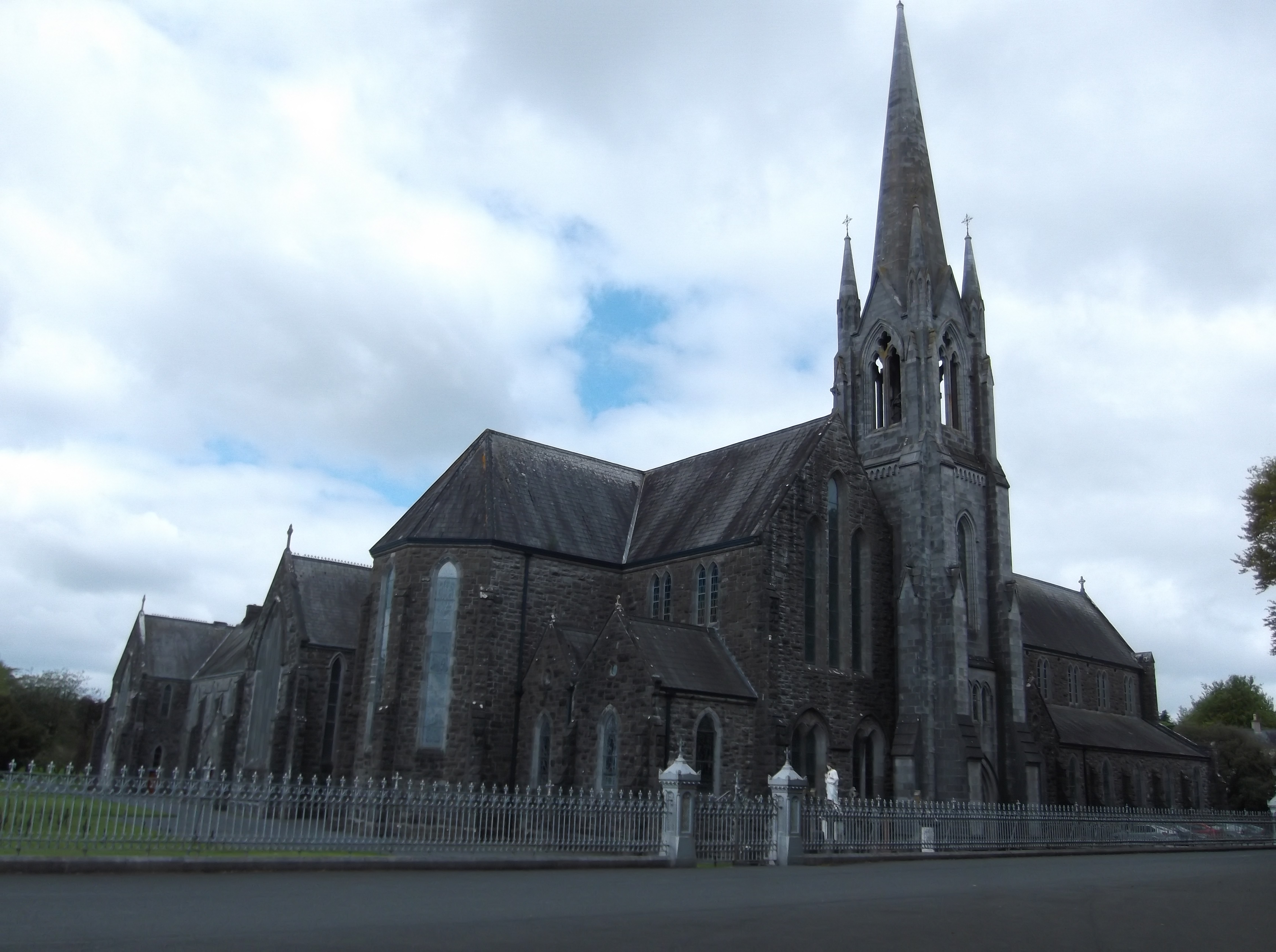 Photograph of Mount St Joseph Abbey church, Roscrea, Co. Tipperary, Ireland